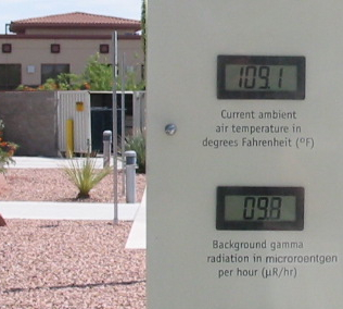 Photograph of the weather station outside of the Desert Research Institute in Las Vegas, Nevada. Readouts include temperature and radioactivity level. The sign and equipment are part of the Community Environmental Monitoring Program.